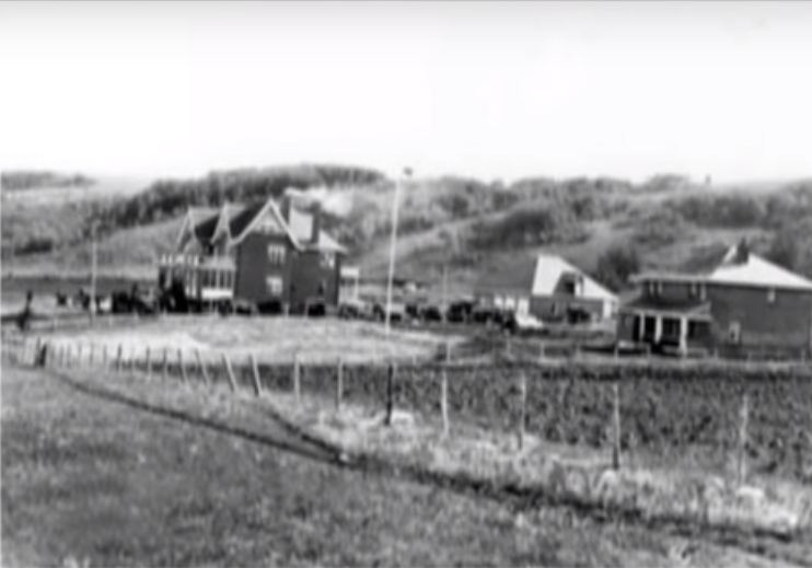 The Hart family mansion in 1920, Calgary, Alberta